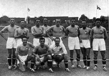 The Italy national football team that won the Gold Medal at the 1936 Olympics held in Berlin.